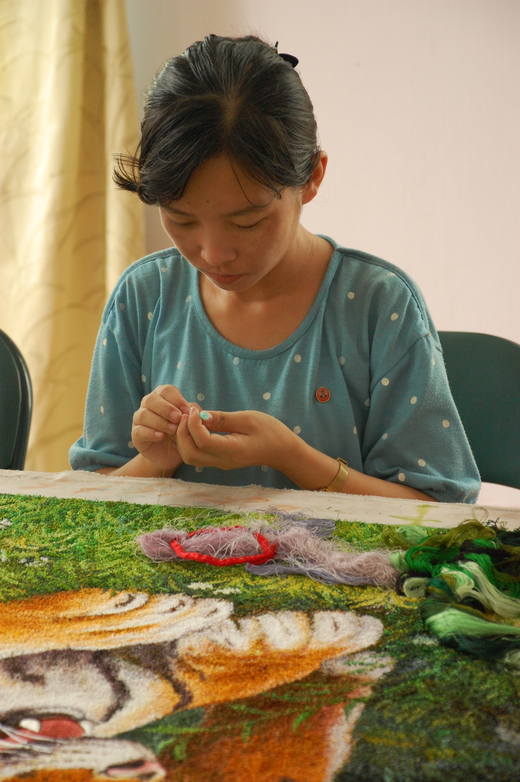 Trip to North Korea in July, 2007